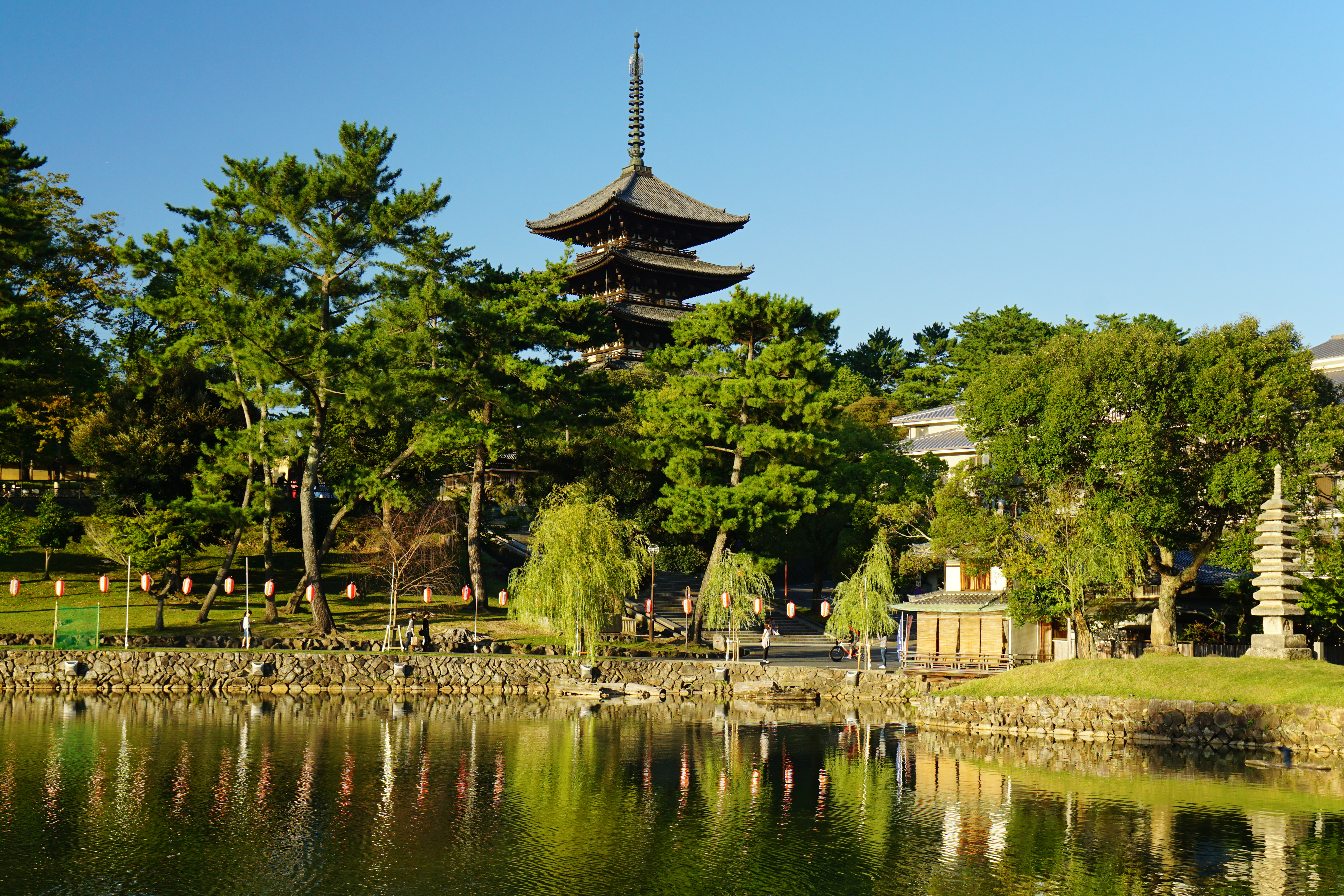 Sarusawaike in Nara, Nara prefecture, Japan